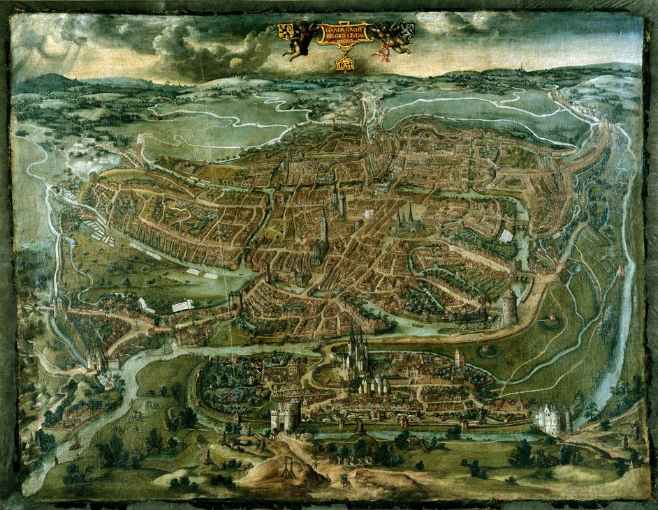 Map of Ghent, 1534